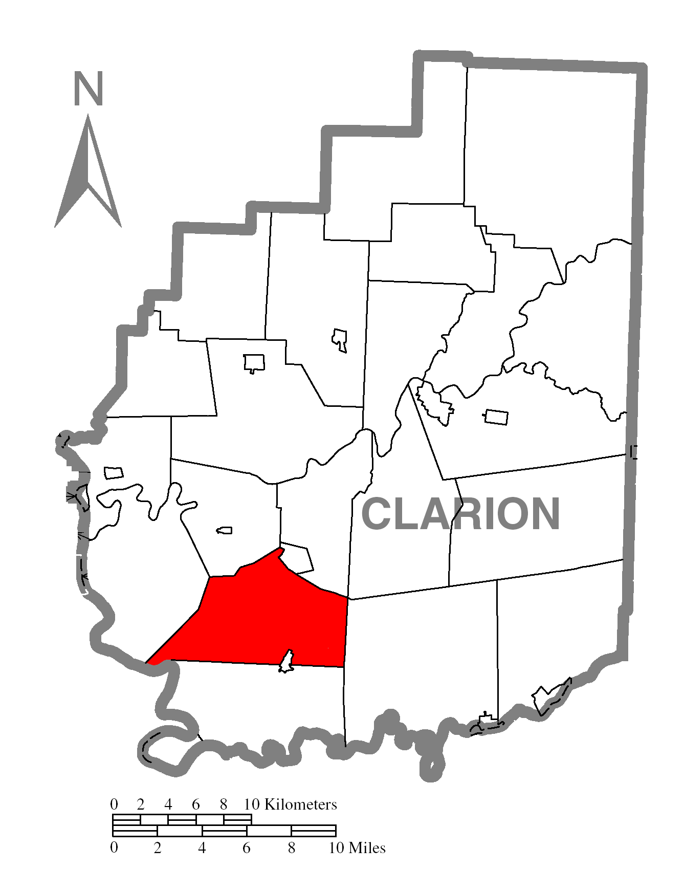 A map of Clarion County showing Toby Township, Pennsylvania (alternate) highlighted on the map.